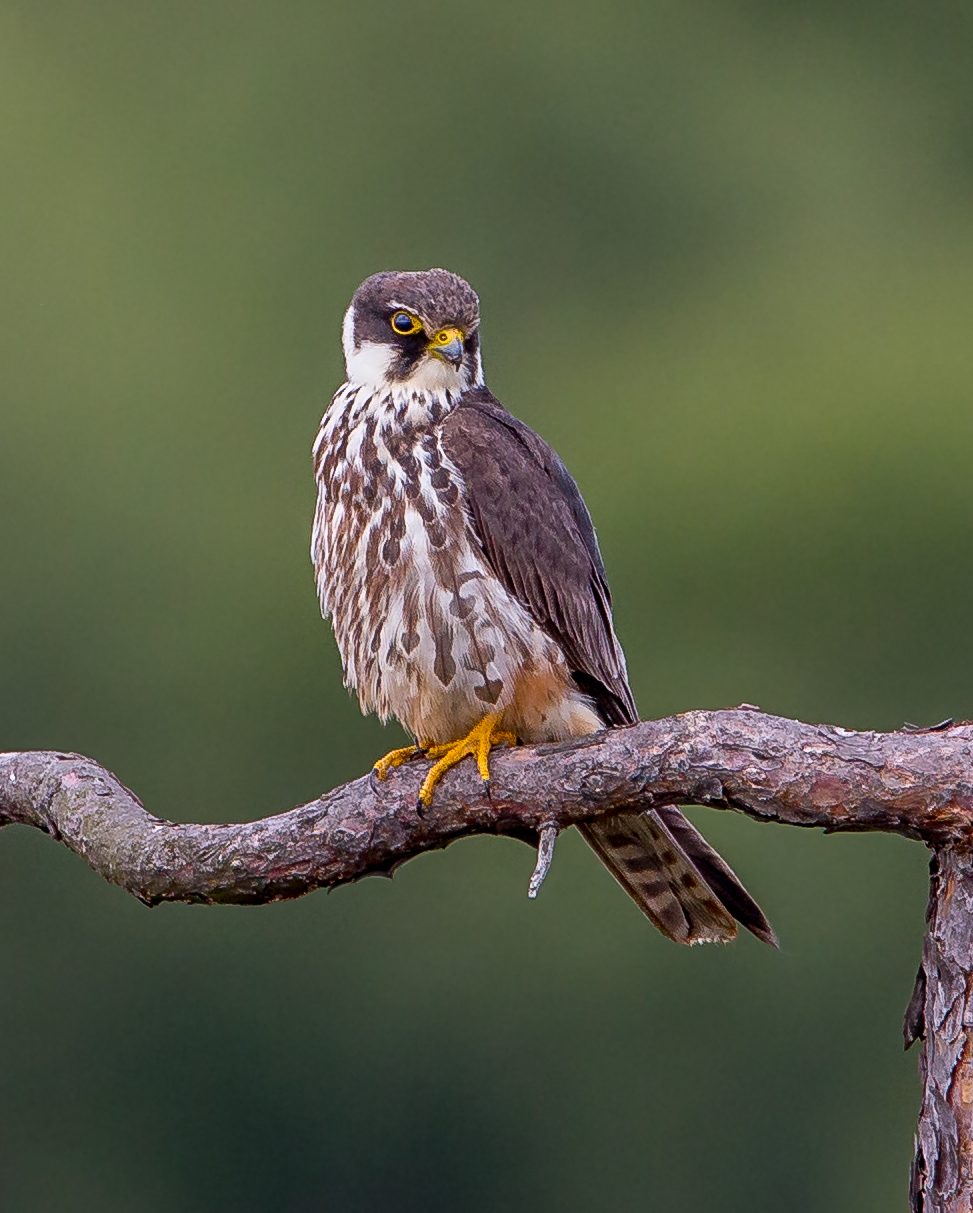 Perched - taking a break from catching dragonflies.